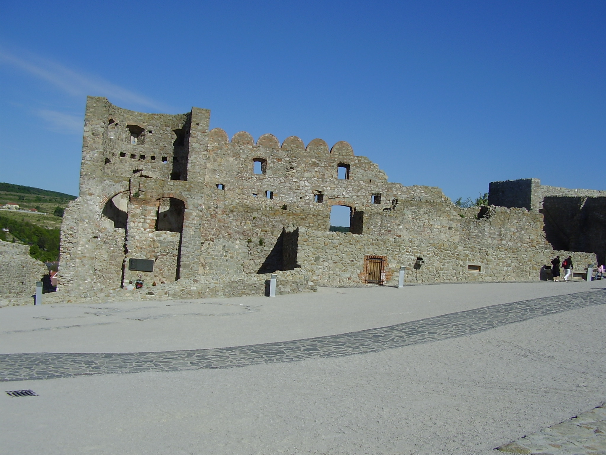 Devin Castle